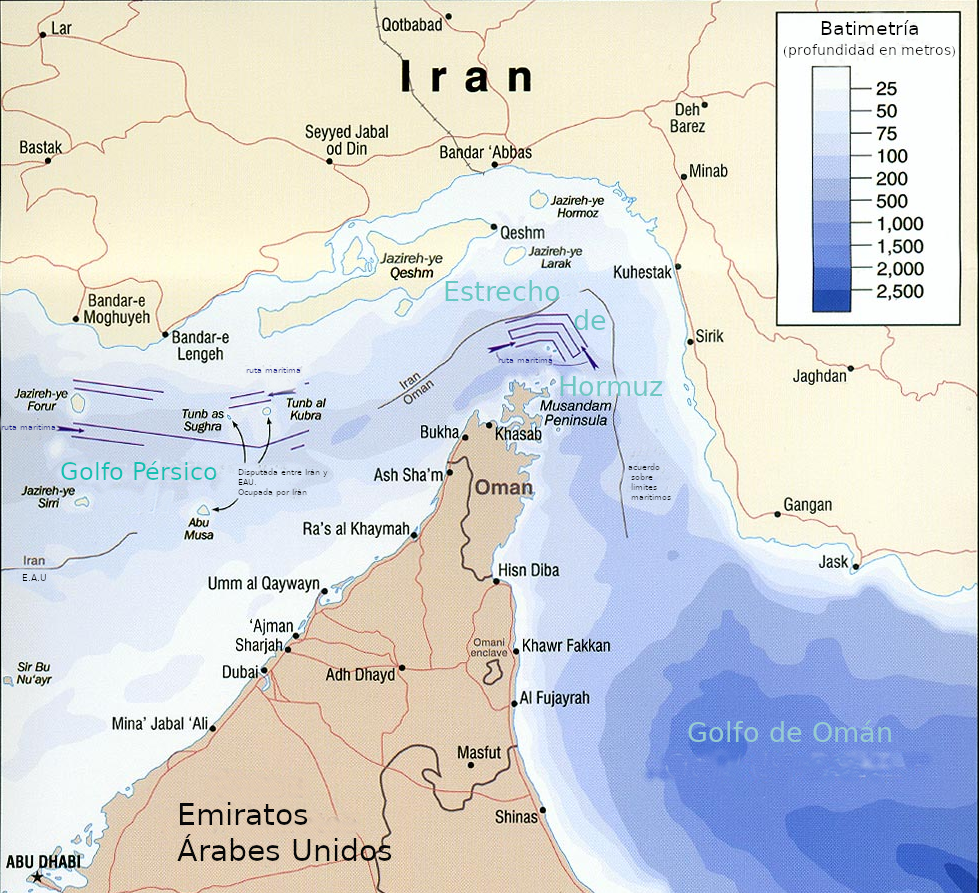 A map of the Strait of Hormuz. A portion of Iran Country Profile Map (Wall Map) 2004